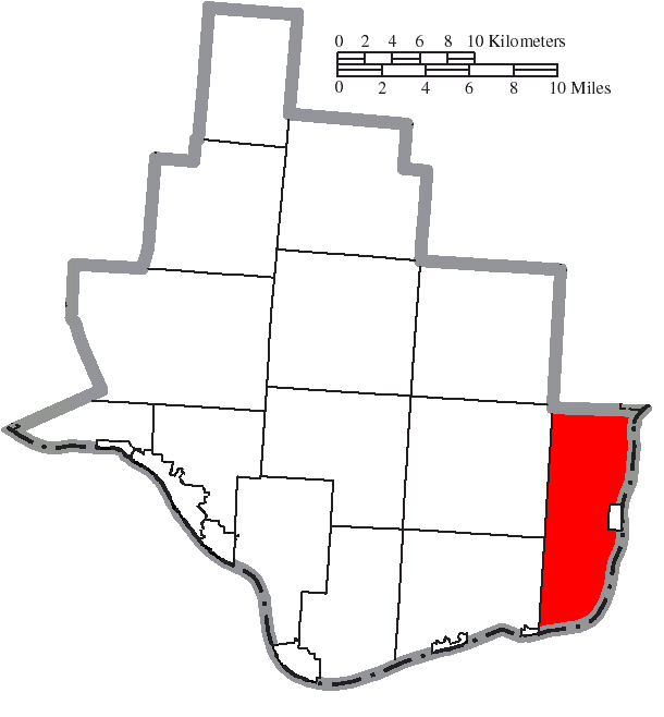 Map of the municipal and township boundaries of Lawrence County, Ohio, United States, as of the 2000 census, with the location of Rome Township highlighted. Township borders are shown only in unincorporated areas in order to differentiate incorporated and unincorporated areas more clearly.